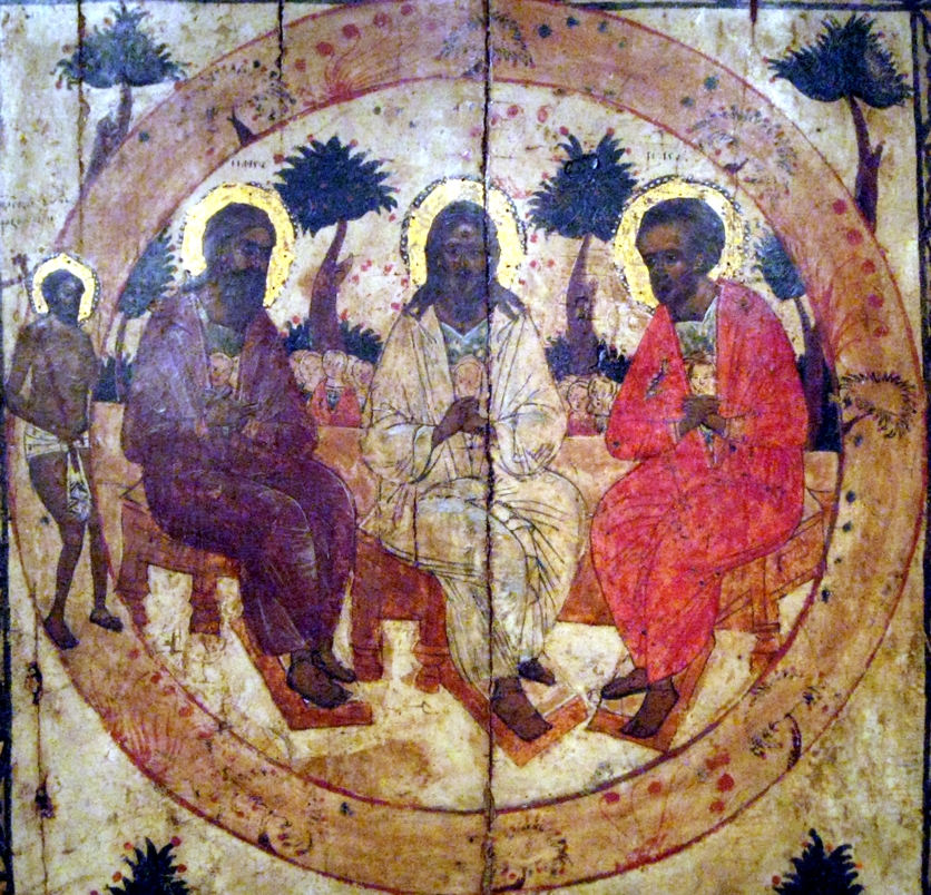 North door of iconostasis. Icon of Paradise: Abraham's Bosom with the Good Thief entering to the left